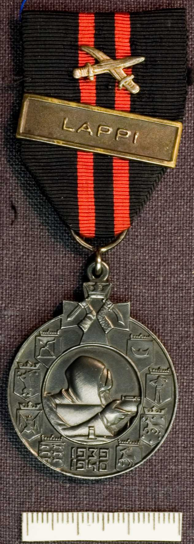 Finnish commemorative medal of the Winter War. Finnish: Talvisodan muistomitali